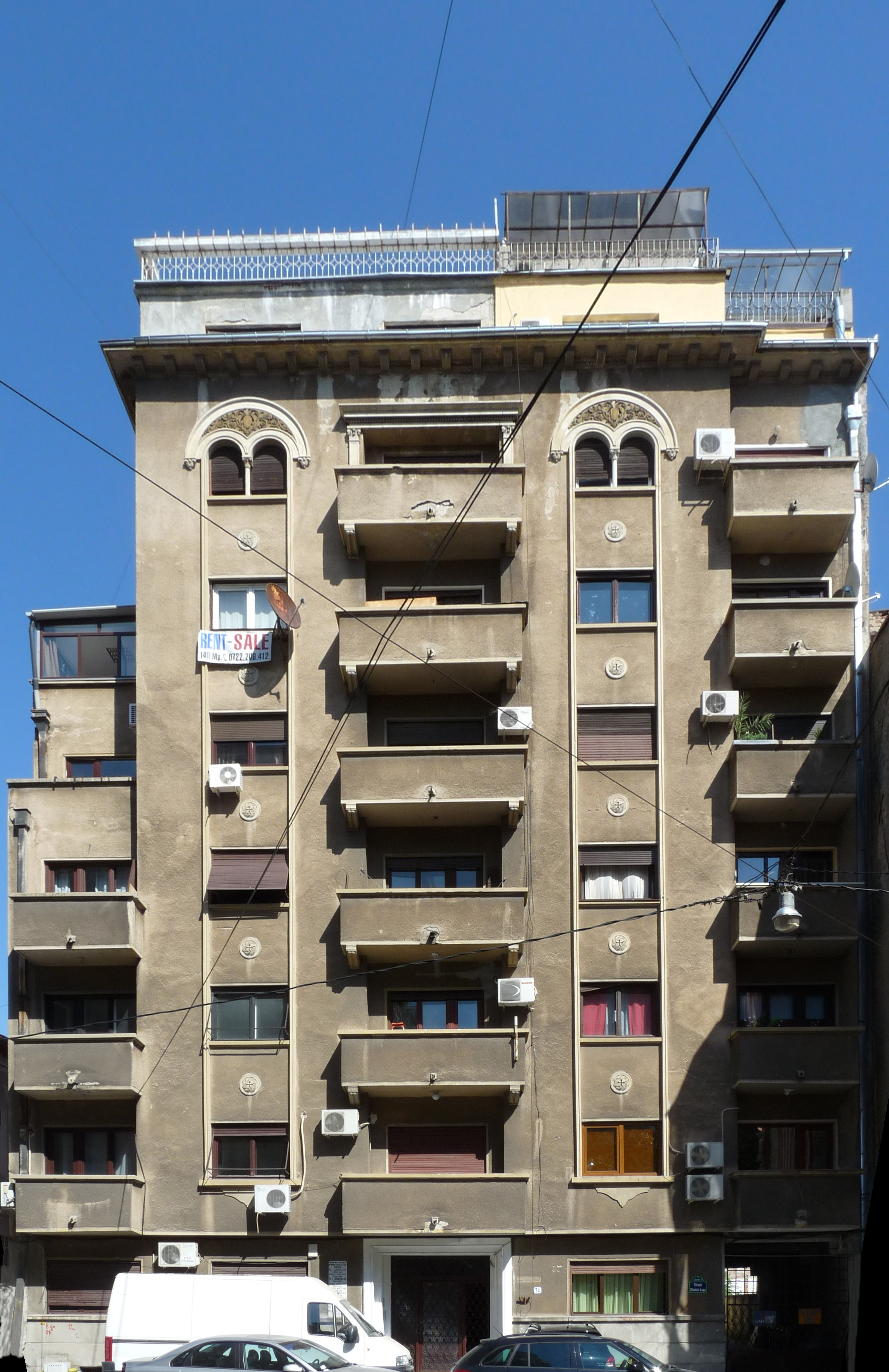 Building on Dionisie Lupu street 74, Bucharest, RomaniaRomână: Imobilul din strada Dionisie Lupu nr. 74, București, România